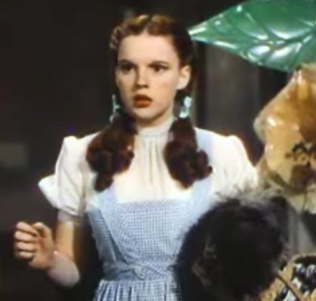 Cropped screenshot of Judy Garland from the trailer for the film The Wizard of Oz.